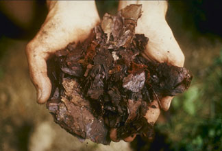 Compost